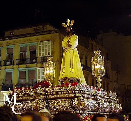 Jesus, the Captive in the Holy Week in Málaga